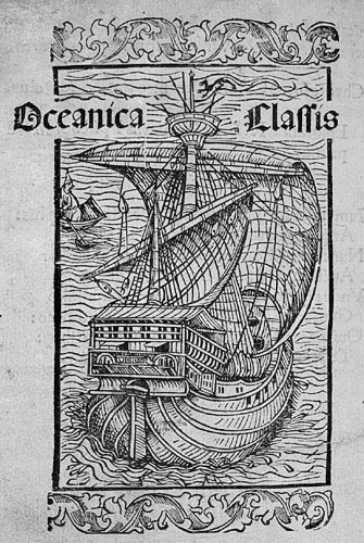 Image from the Basel 1494 edition of Columbus' Letter announcing the Discovery.